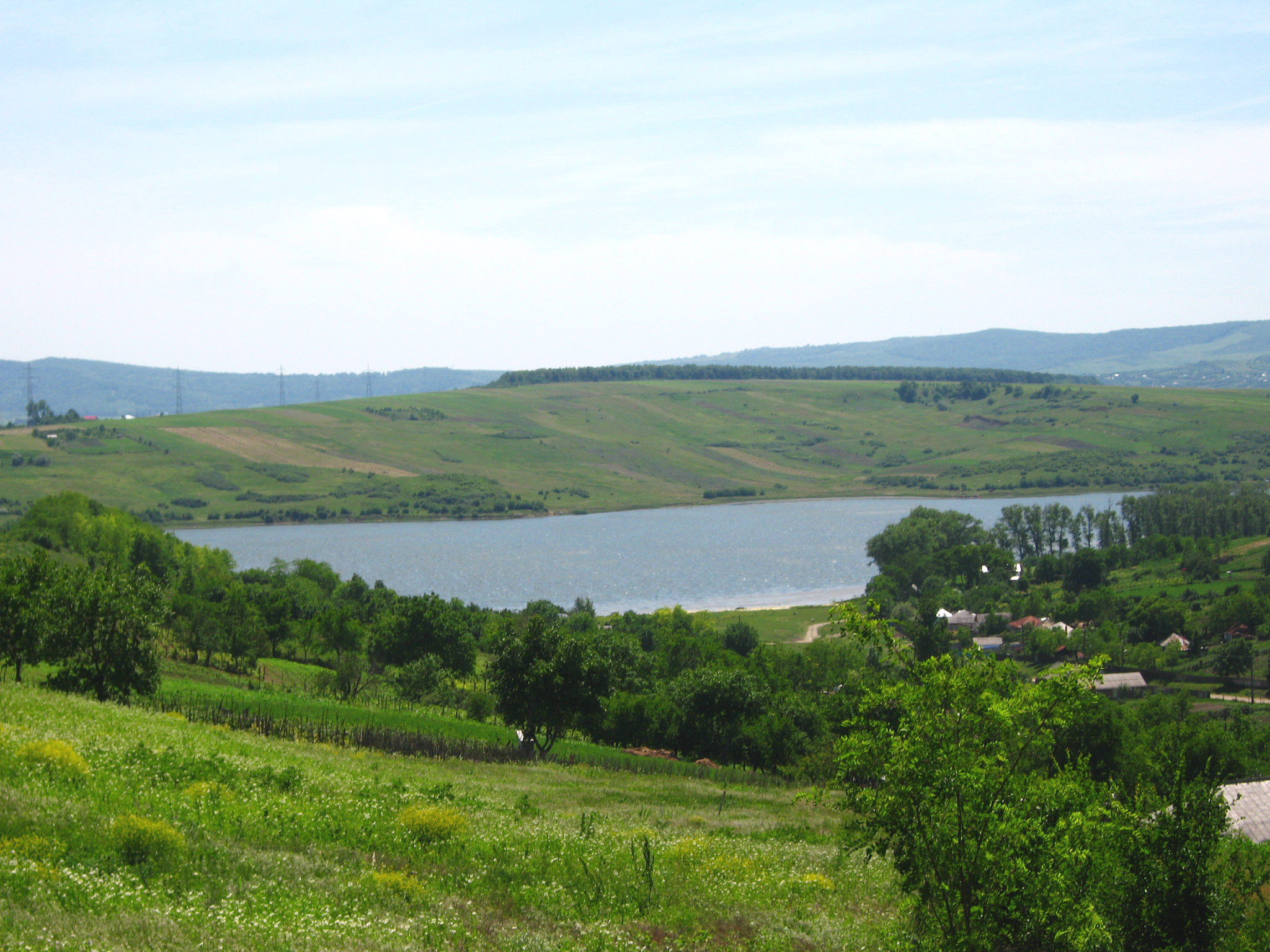 Lacul Ciurbeşti